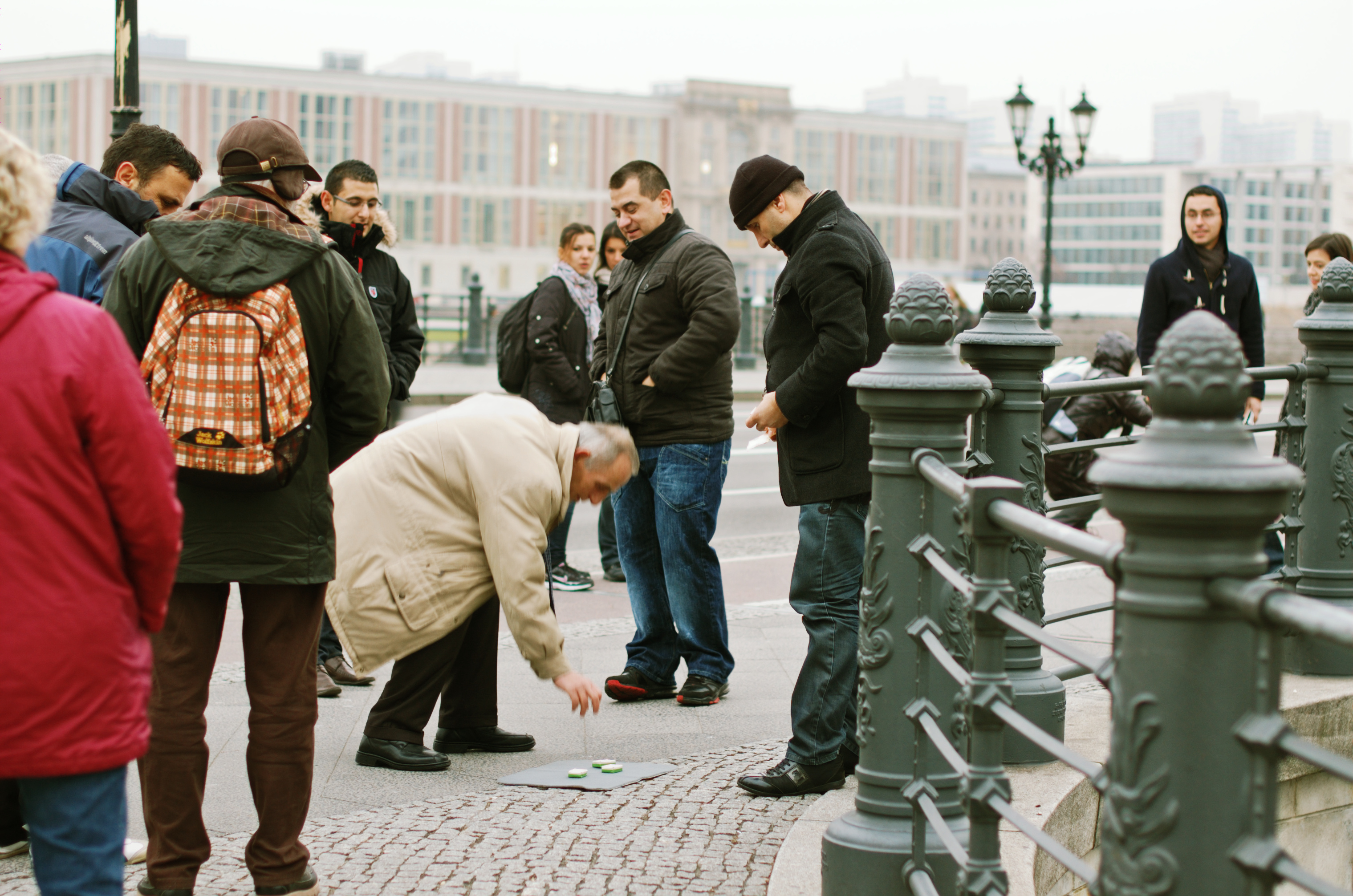 Shell game performed on Karl-Liebknecht-Straße in Berlin